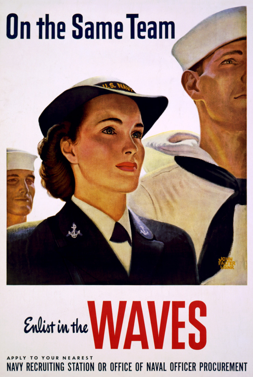 On the same team – Enlist in the WAVES ("Women Accepted for Volunteer Emergency Service"). Apply to your nearest Navy Recruiting Station or Office of Naval Procurement. Head-and-shoulders portrait of WAVE and sailors.